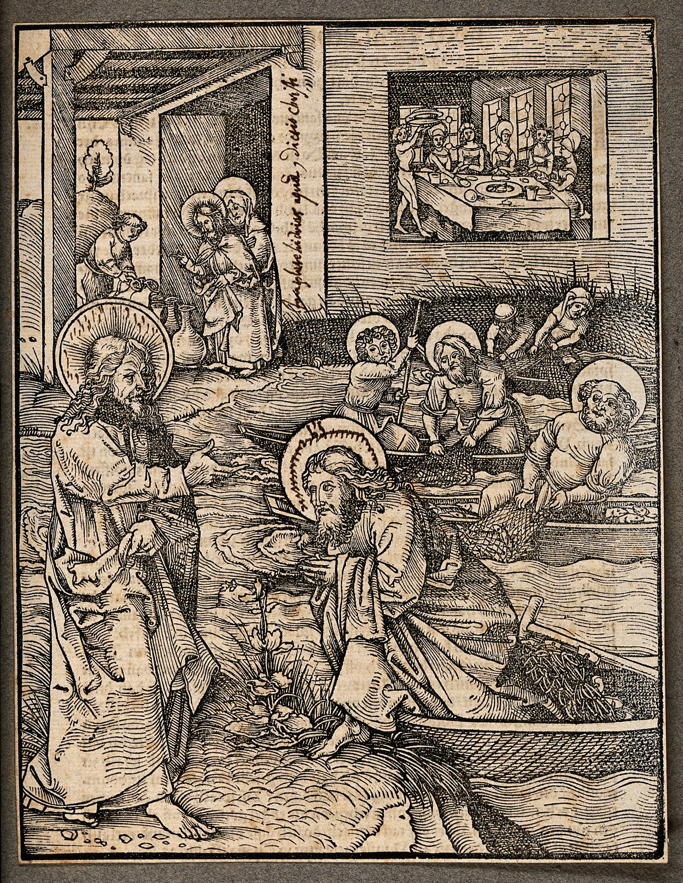 Jesus calls the fishermen to be his apostles; in the background he performs the miracle at Cana. Woodcut. Iconographic Collections Keywords: Jesus Christ; Peter; John; Andrew; James